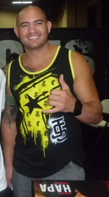 MMA fighter Travis Browne